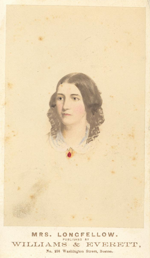 "color photo imprint 'Mrs. Longfellow' publ Williams & Everett, Boston. Reverse w imprint by Silsbee & Case, Boston"